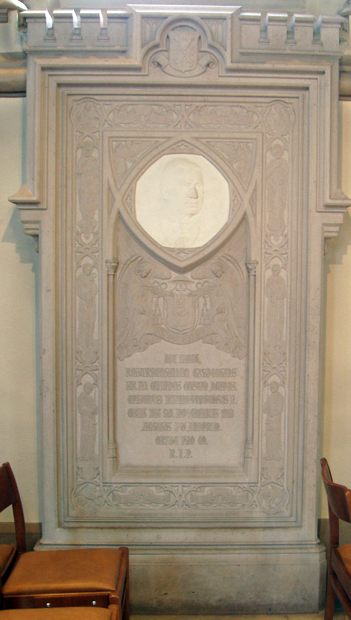 Gravestone of bishop Jean-Joseph Koppes (+ 1918) Luxembourg, Chapel of Glacis